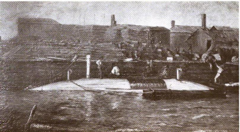 The confederate torpedo boat David in Charleston Harbor